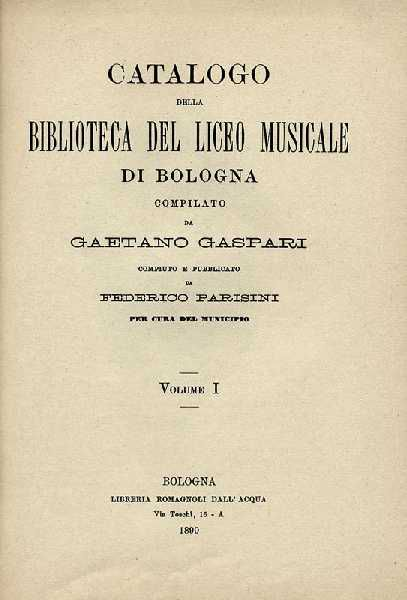 Gaetano Gaspari: Catalogo della Biblioteca musicale G. B. Martini di Bologna.